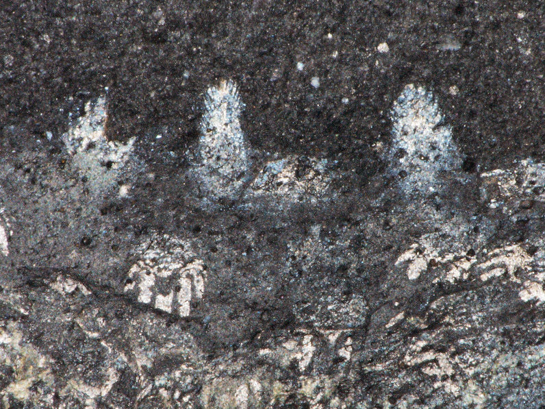 Type A and Type B teeth of the Cambrian Priapulid Ottoia prolifica from the Burgess Shale. Smithsonian institution, NMNH 198591.